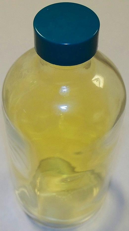 Chlorine gas